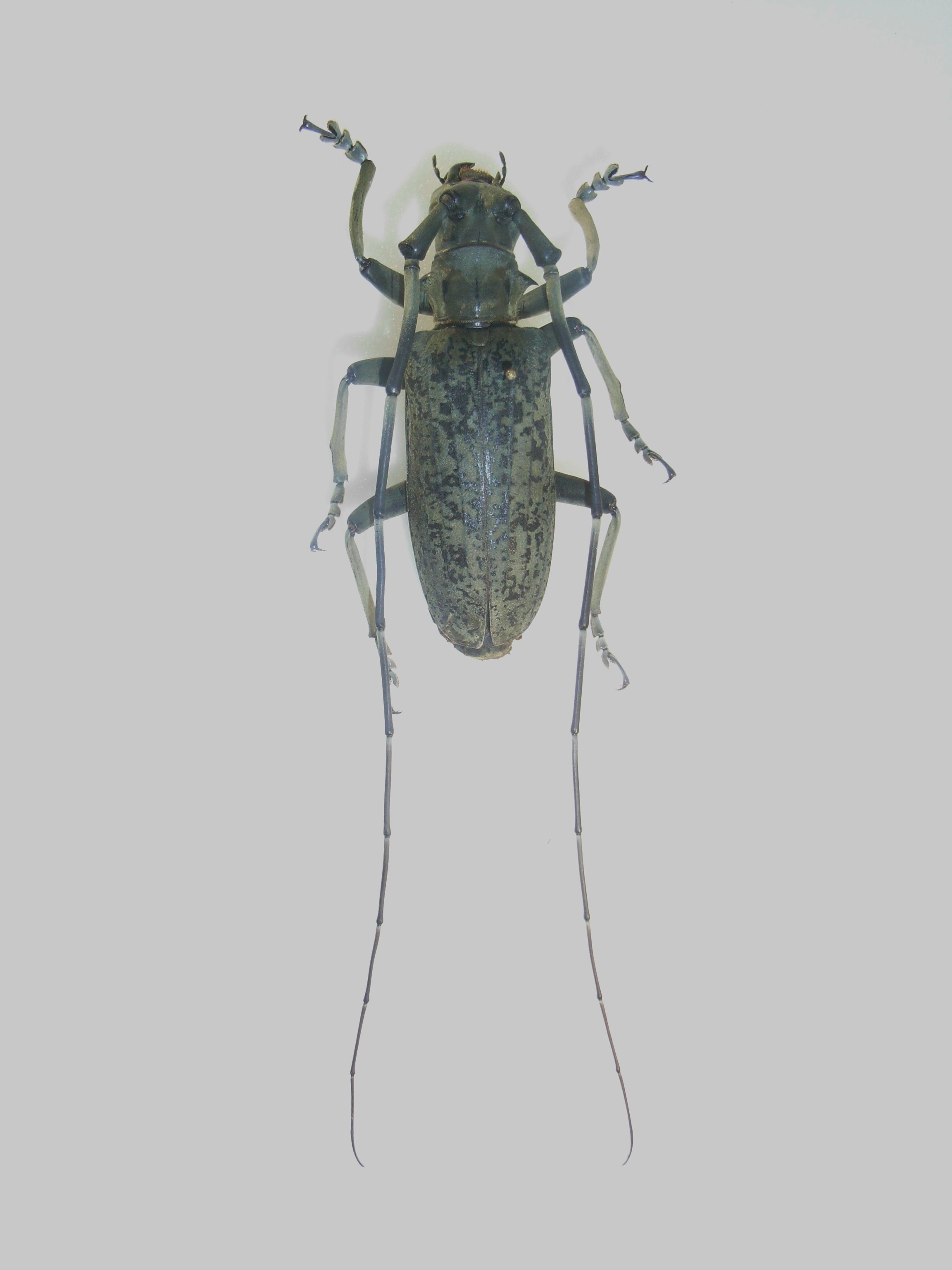 Pseudomeges varioti Le Moult, 1947 Ex coll. Felix Stumpe